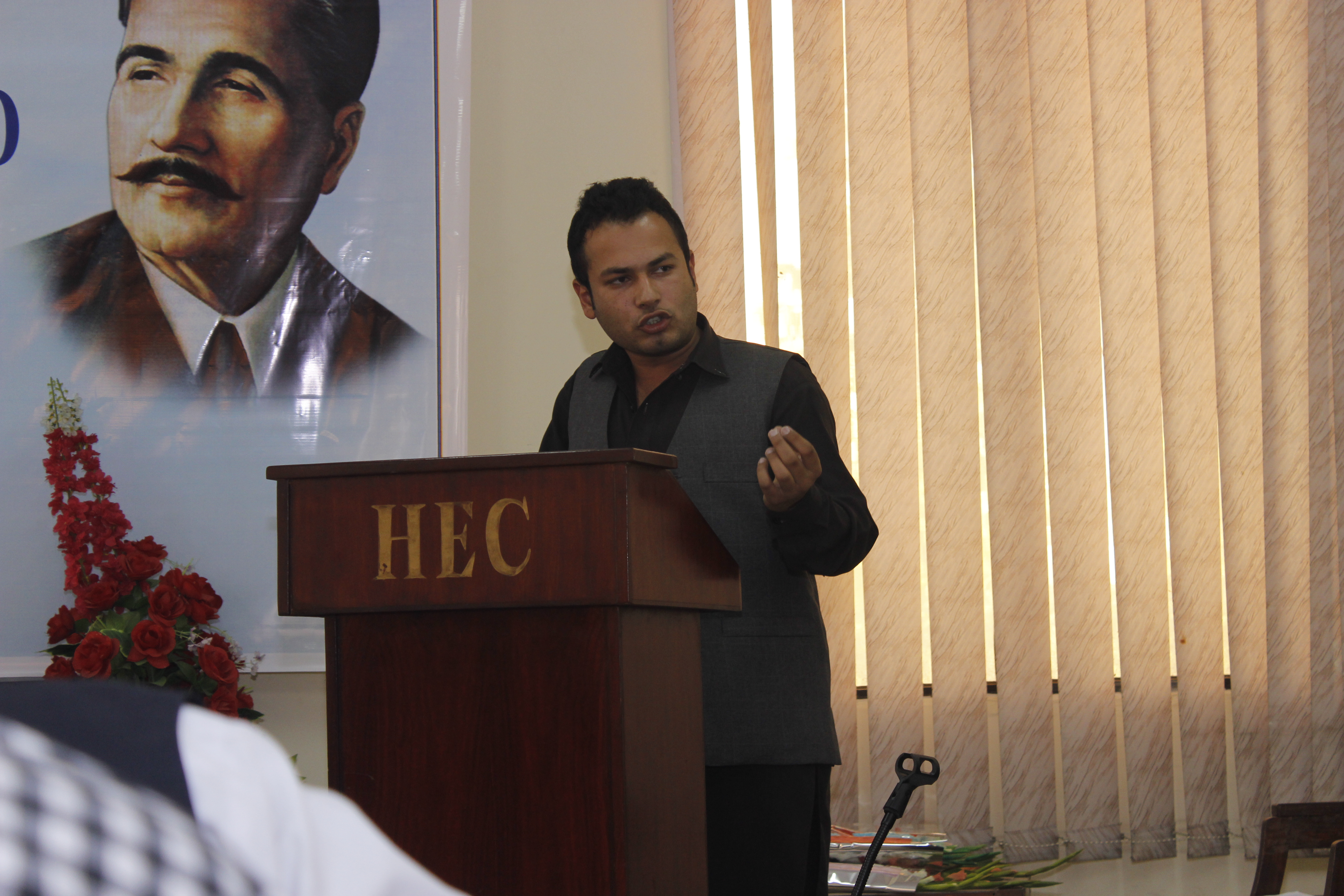 Riaz Ali representing University of Swat in 17th inter-university Declamation Contest for the award of Allama Iqbal Shield.